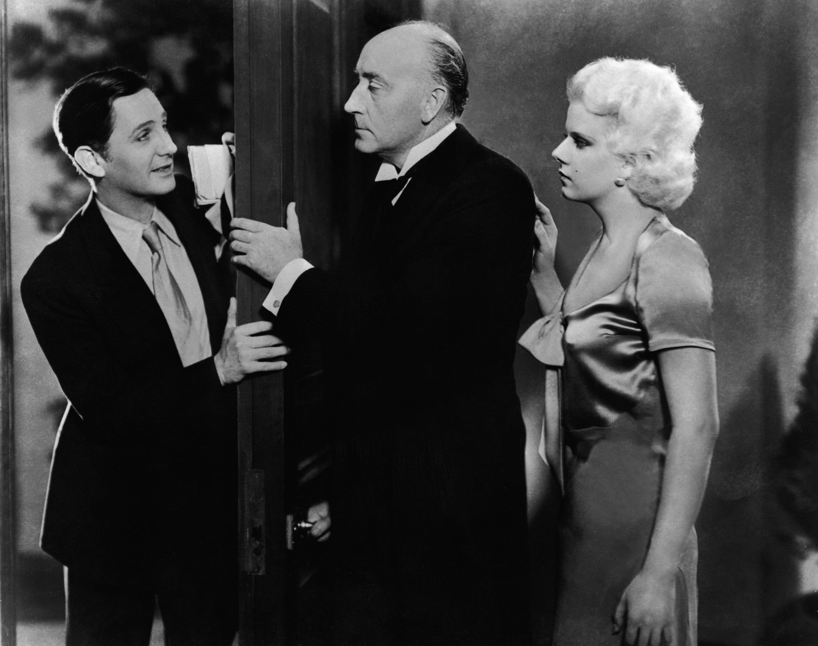 Promotional photo of Robert Williams, Halliwell Hobbes and Jean Harlow in the American romantic comedy Platinum Blonde (1931).